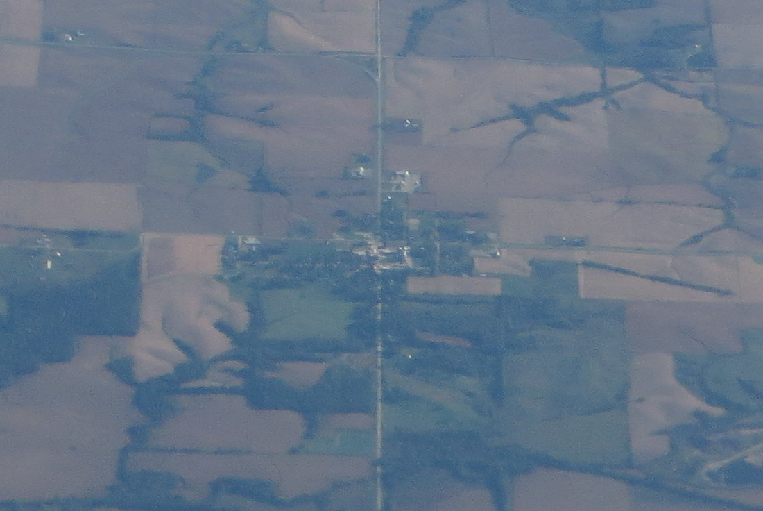 Keswick is a city in Keokuk County, Iowa, United States. The population was 246 at the 2010 census. The Burlington, Cedar Rapids and Northern Railway built a 66-mile branch to What Cheer via Keswick in 1879. The town is named for Keswick, England, the home town of a local woman who had offered lodging to the track-laying crew.